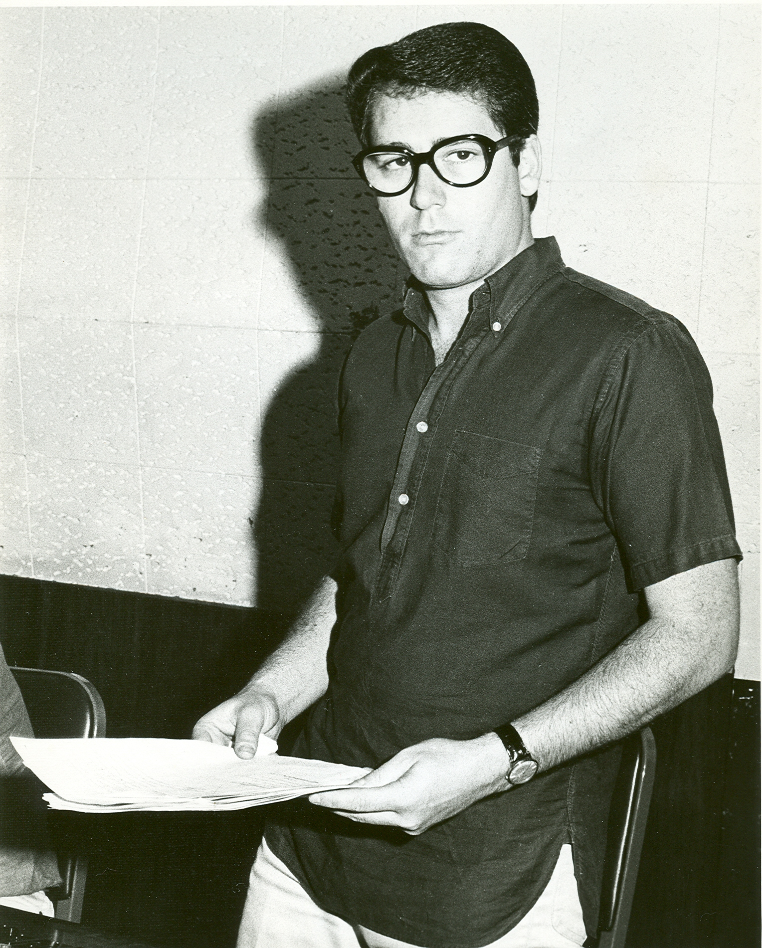 Jack Keller promotional photo